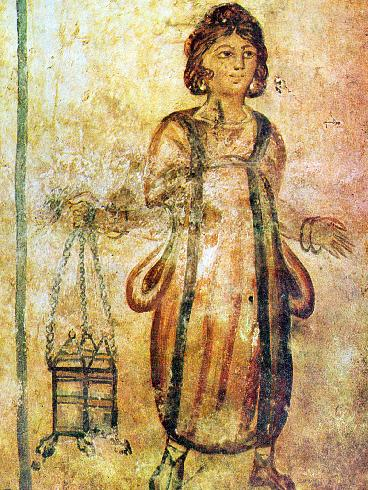 Fresco of a servant in the Roman Tomb of Silistra in northeastern Bulgaria